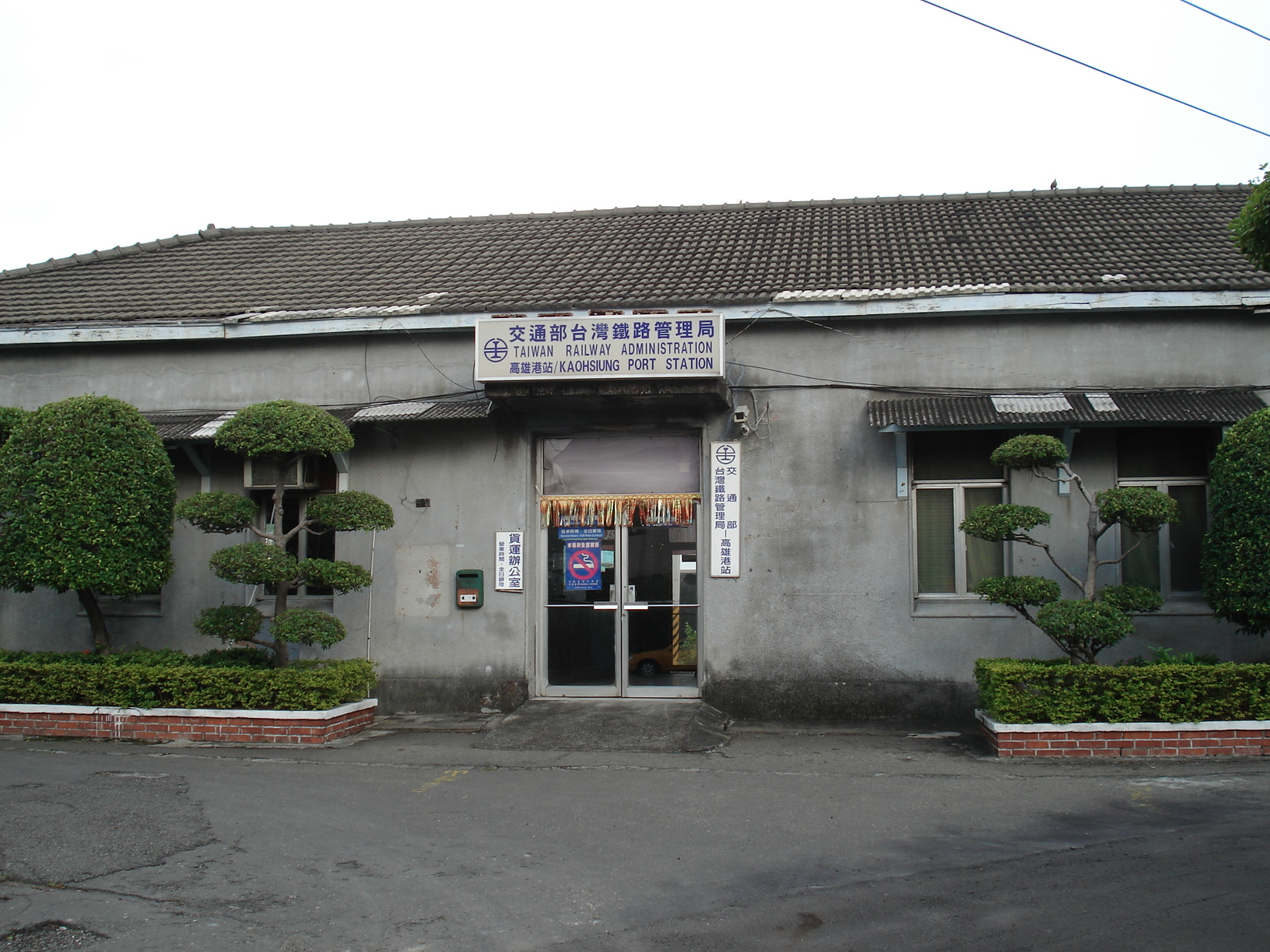 Front view of Kaohsiung Port Station of Taiwan Railway Administration. The railway station is for freights only.